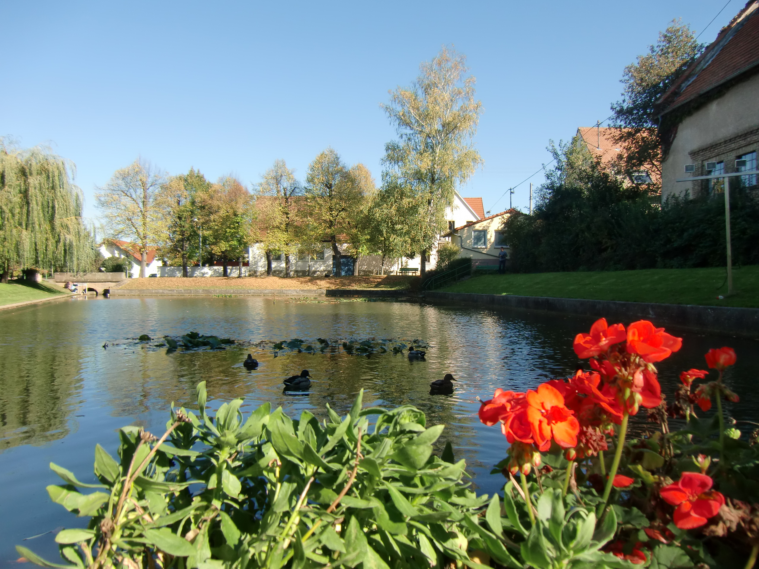 Woog in Mörstadt